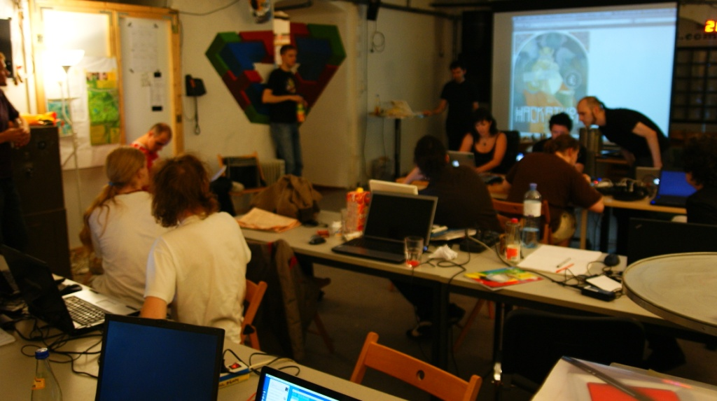 Metalab in work